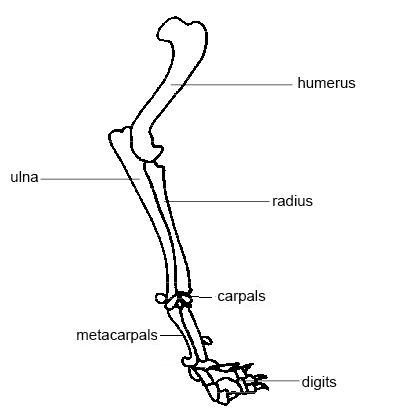 Forelimb of dog, labelling corrected, original drawing by J. R. Lawson, Otago Polytechnic, Dunedin, New Zealand 2007.